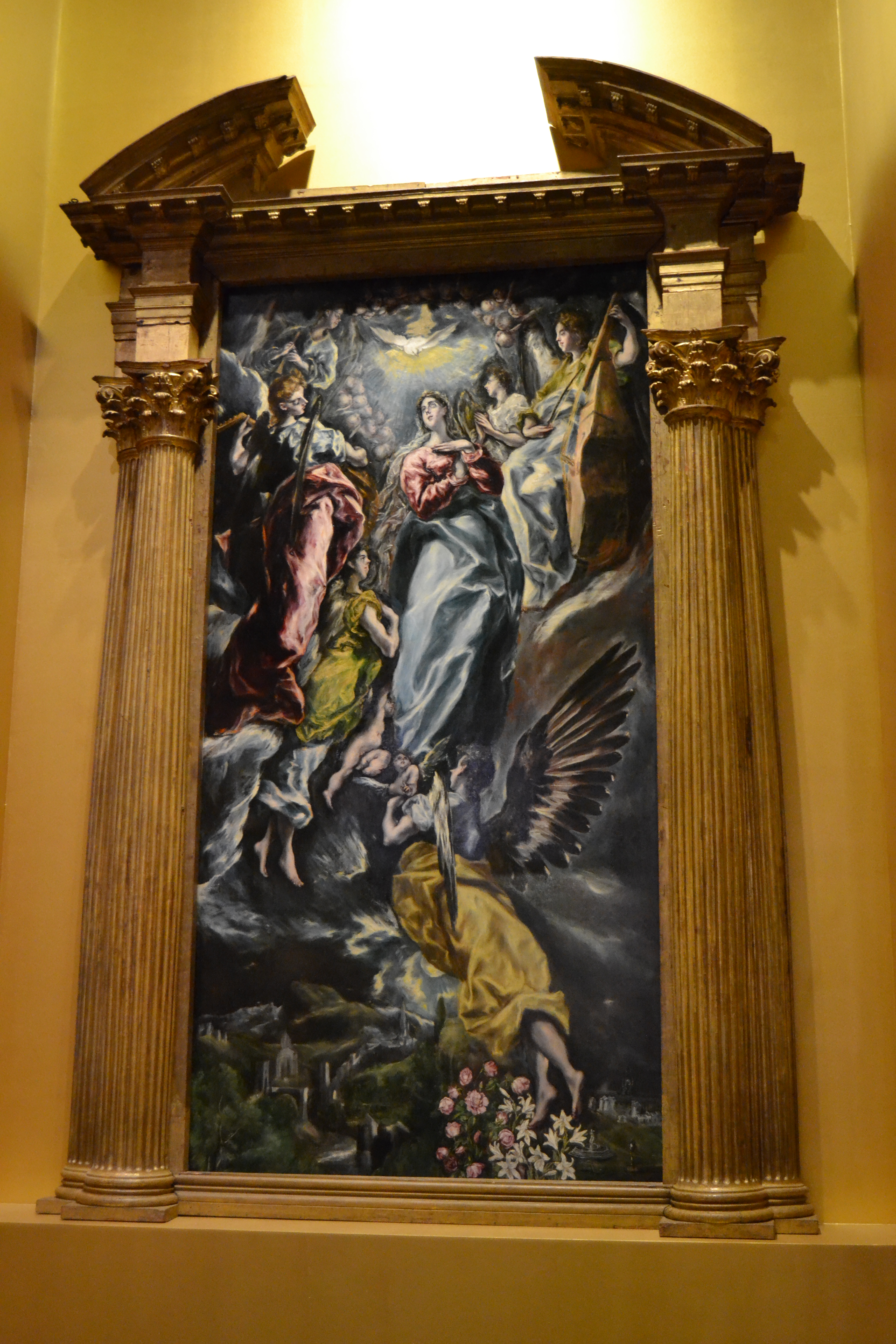 Museo de Santa Cruz, Toledo, Spain